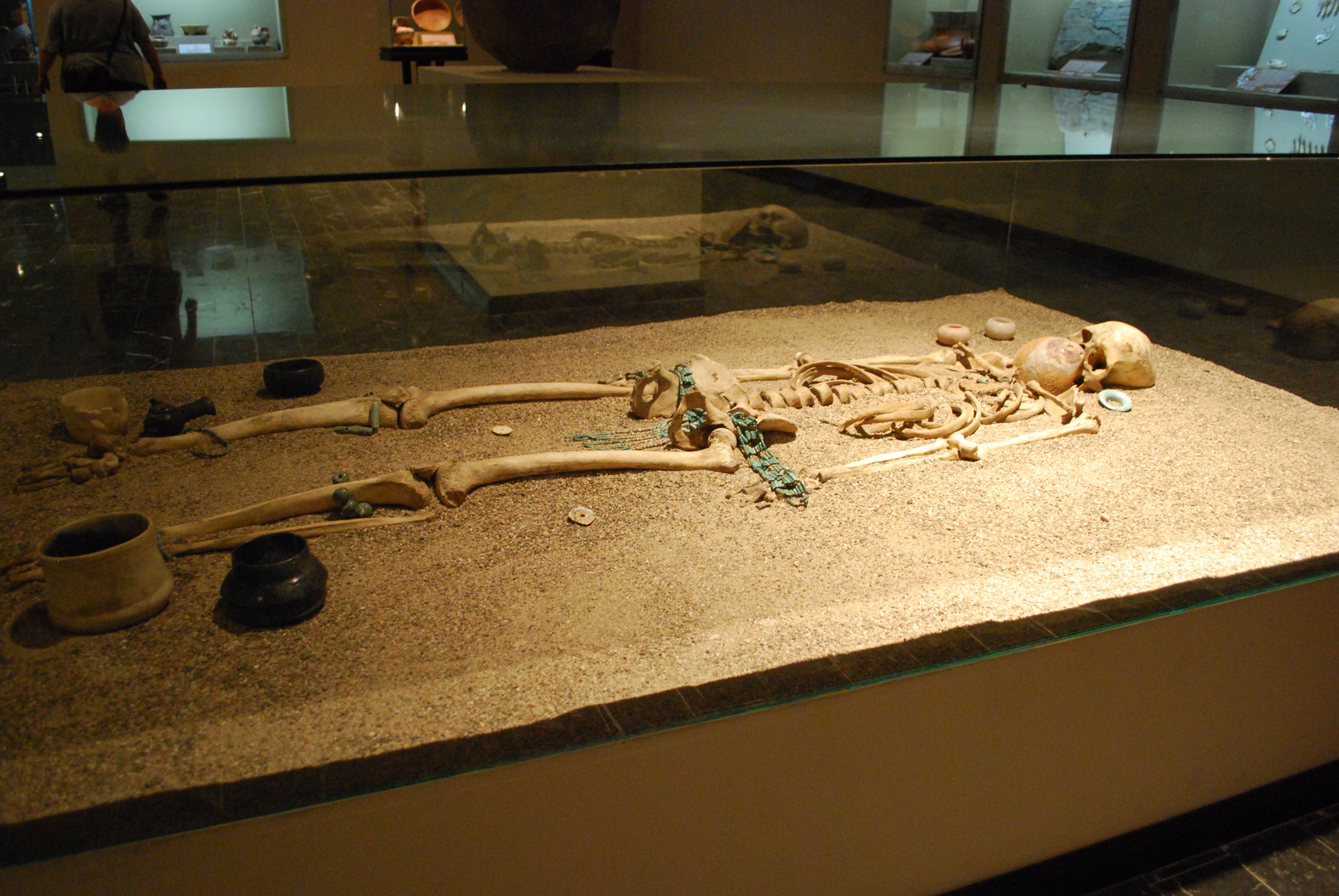 Skeleton from Mound 5 at Chiapa de Corzo at the Regional Museum in Tuxtla Gutierrz, Chiapas, Mexico